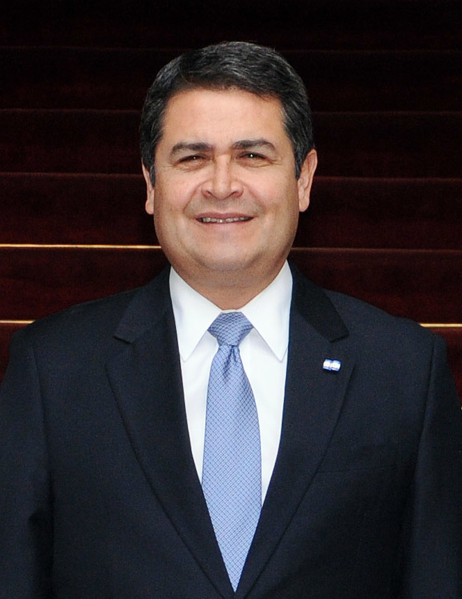 Juan Orlando Hernández (center), President of Honduras at the Torre Togle Palace in Lima.